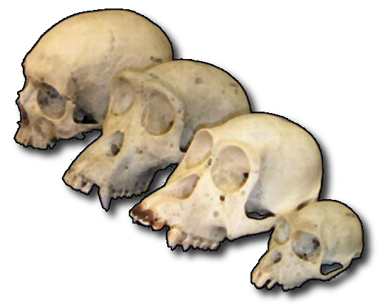 Primate skulls provided courtesy of the Museum of Comparative Zoology, Harvard University.